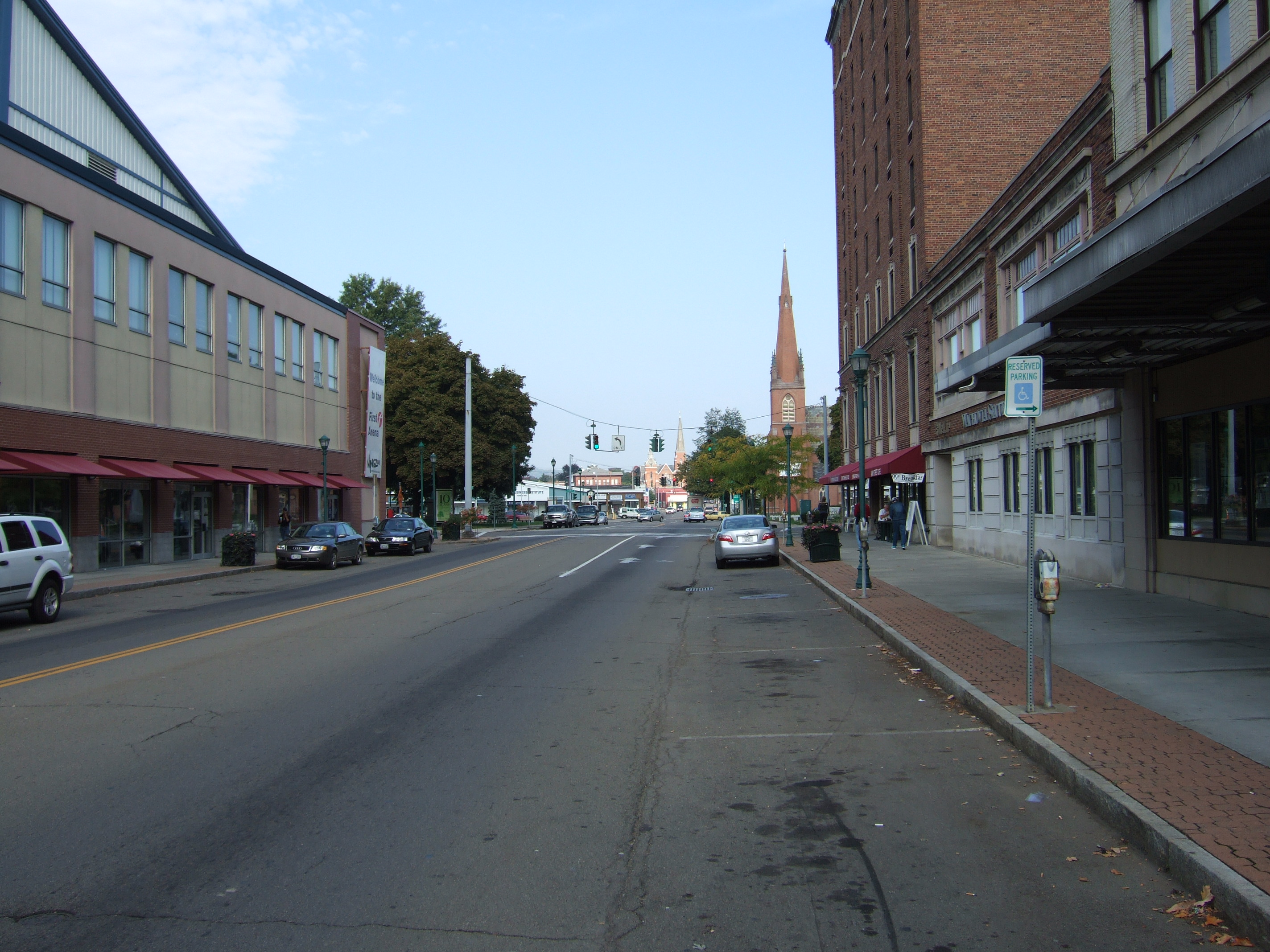 Elmira, New York